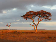 The countryside of Burco, the second largest city in the northwestern Somaliland region of Somalia.